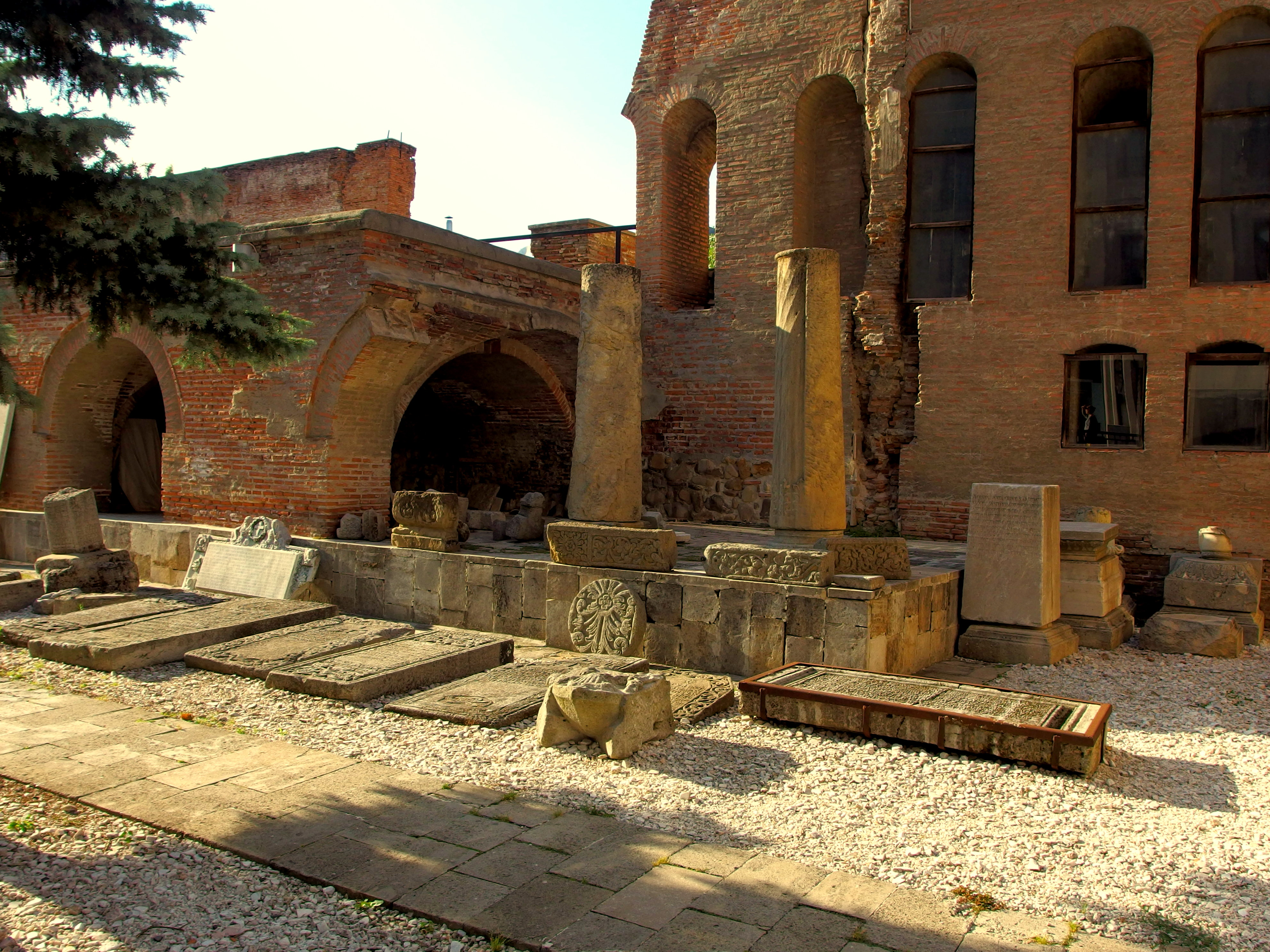 2014-07-02 in Bucureşti.